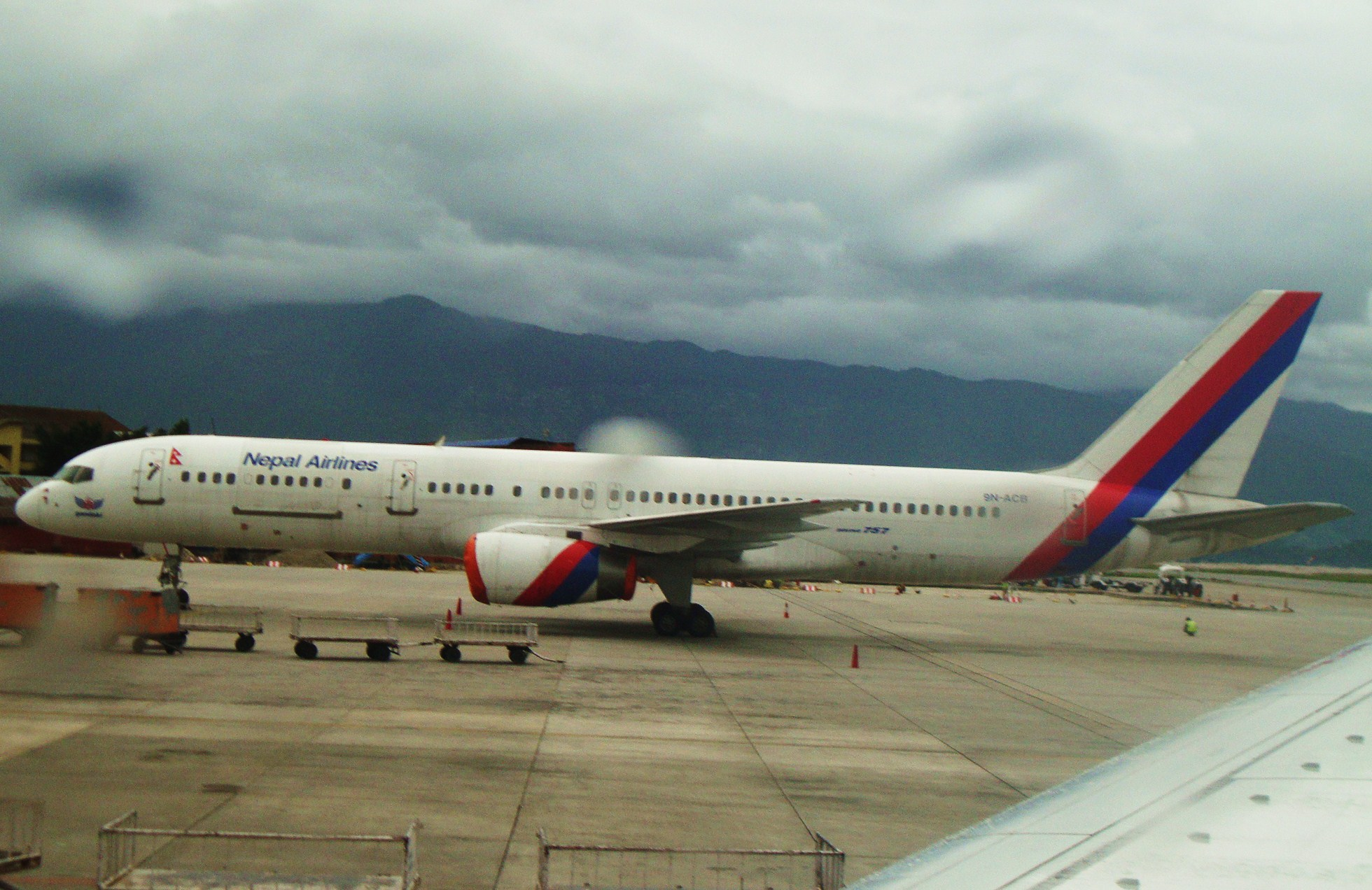 Nepal Airlines Boeing 757-200 Combi at Tribhuvan International Airport, Kathmandu, Nepal